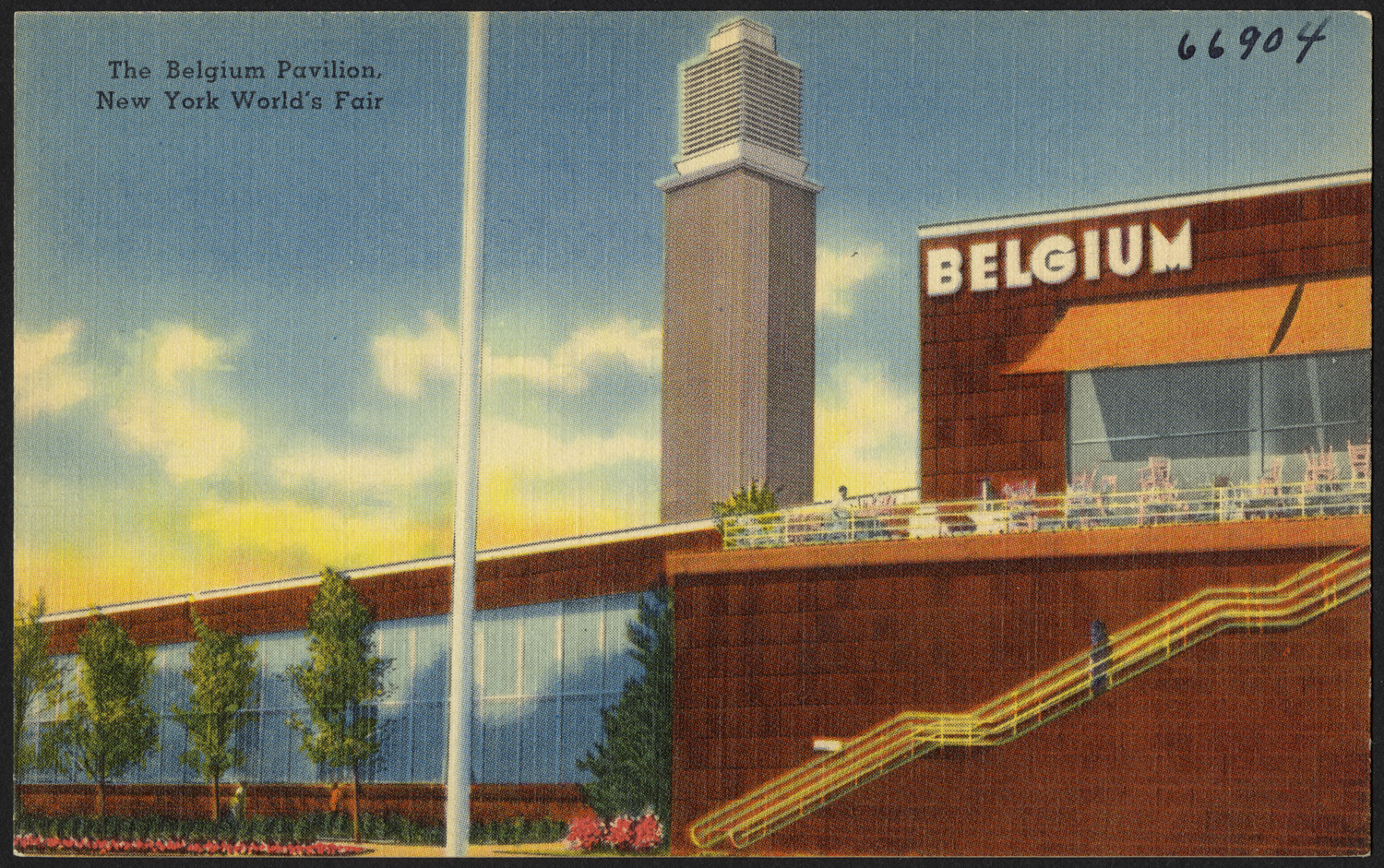 File name: 06_10_022920 Title: The Belgium Pavilion, New York World's Fair Created/Published: Date issued: 1930 - 1945 (approximate) Physical description: 1 print (postcard) : linen texture, color ; 3 1/2 x 5 1/2 in. Genre: Postcards Subjects: Notes: Title from item. Collection: The Tichnor Brothers Collection Location: Boston Public Library, Print Department Rights: No known restrictions